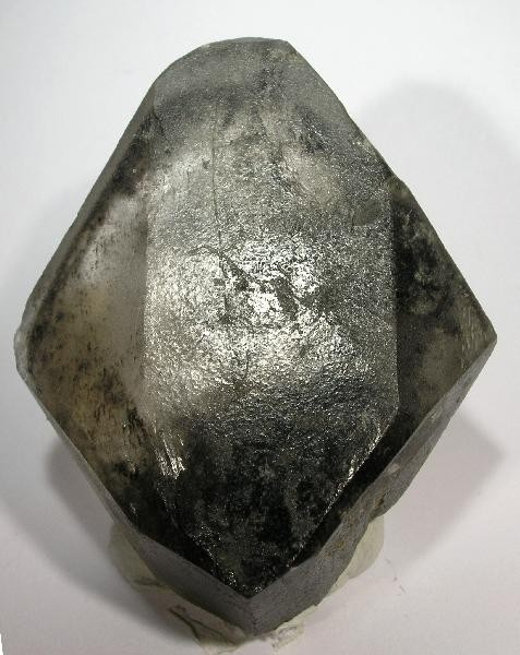 Blödite Locality: Soda Lake, Carrizo Plain, San Luis Obispo County, California, USA (Locality at ) Size: 4.8 x 4 x 1.5 cm. A very strange hydrated sulfate that produces beautiful, large, floater crystals like you see here. This is a very more gemmy crystal, as most were seemingly found in the 1960s and 1970s here. Ex. Martin Zinn Collection.